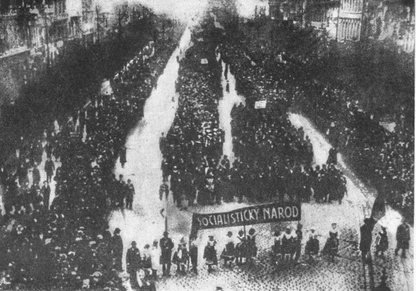 1. May 1918 in Prague